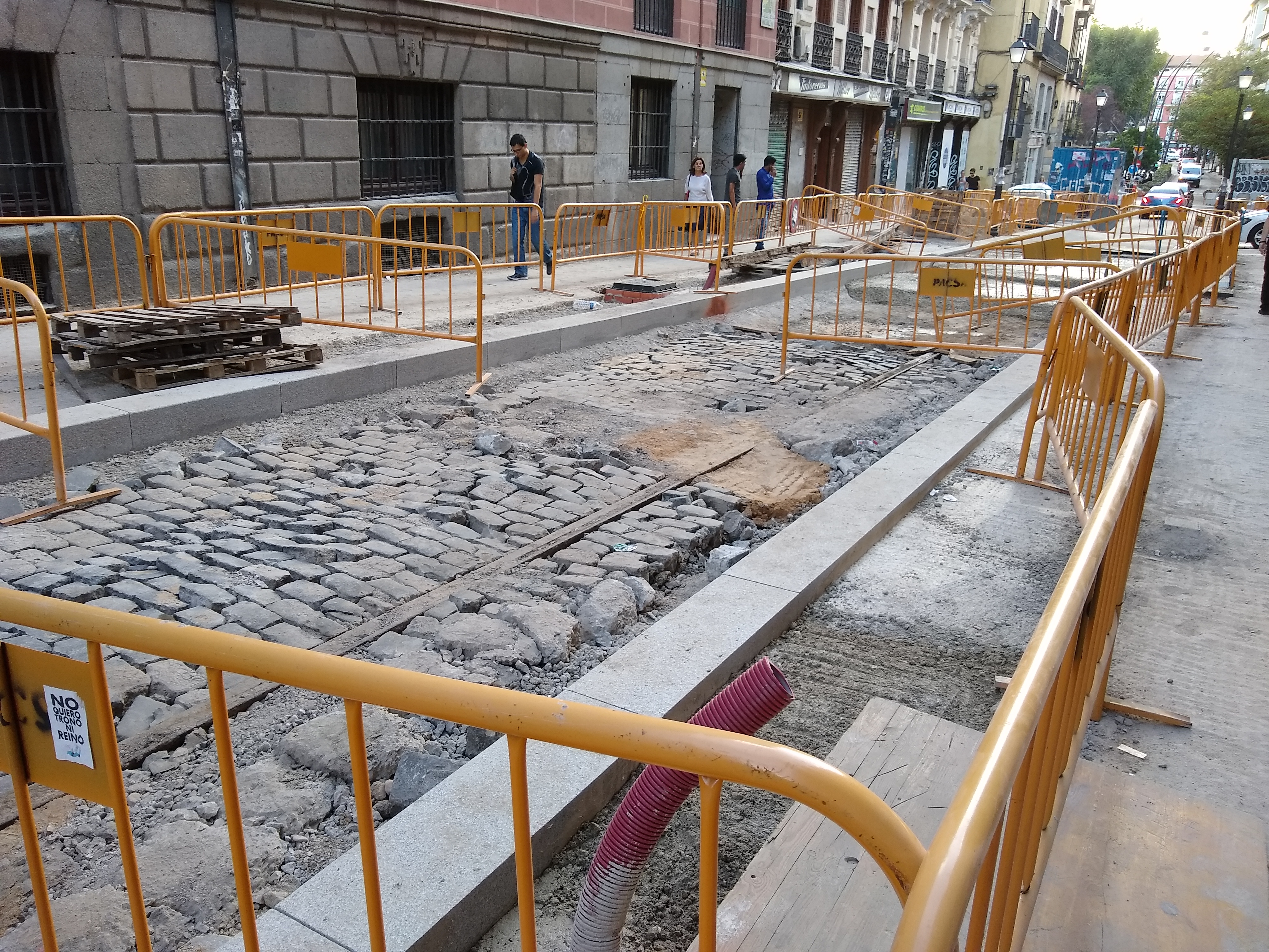 Maintanance works in Magdalena street, Madrid (Spain)